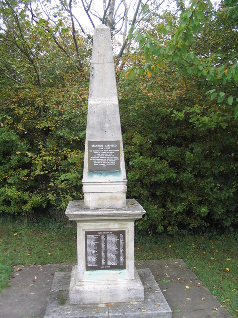 Memorial at entrance to Spanhoe Airfield The airfield, still in use by light aircraft, was home to the US 315th Troop Carrier Group during the 1944-45 liberation of Europe